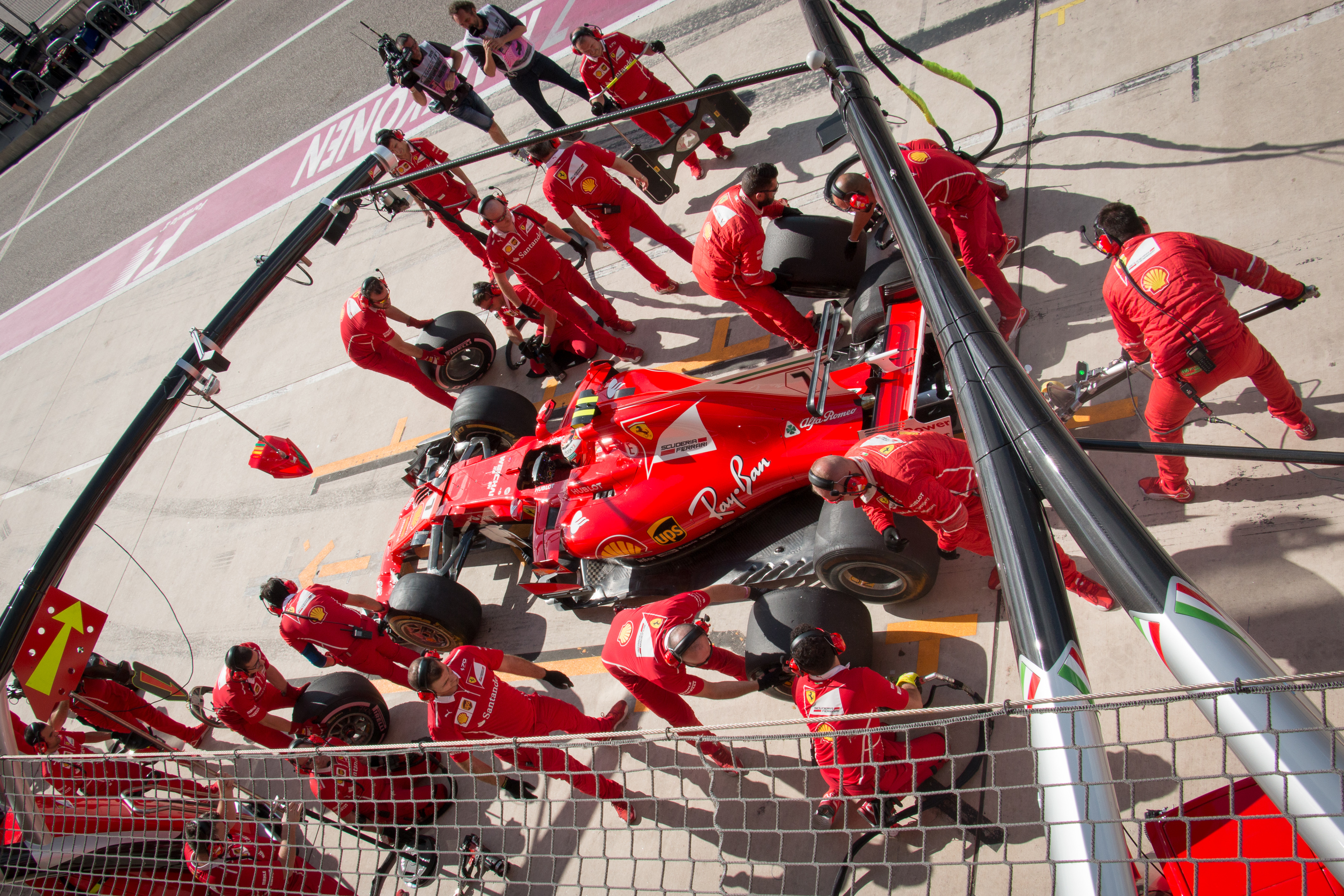 USGP Austin Oct 2017